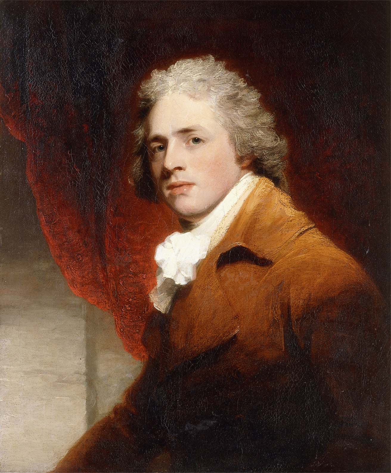 The sitter has traditionally been identified as Richard Brinsley Sheridan (1751-1816).